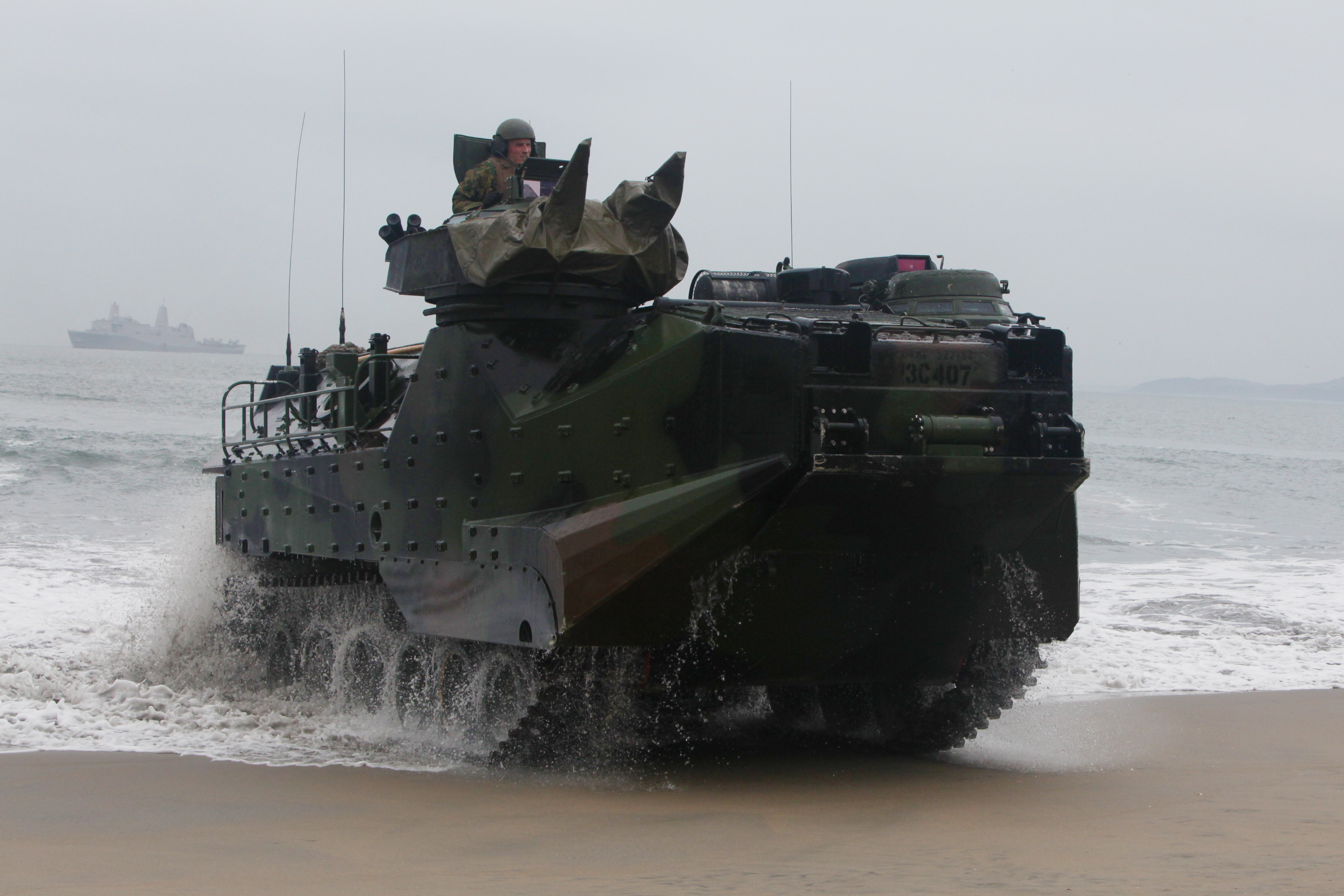 U.S. Marines with 4th Platoon, Company C, 3rd Assault Amphibian Battalion, 1st Marine Division, drop off Marines attached to Special Purpose Marine Air-Ground Task Force 24 and service members from 10 different nations on a beach in Ancon, Peru, on July 7. The unit is embarked on the transport dock ship USS New Orleans in support of operation Partnership of the Americas/Southern Exchange, a combined amphibious exercise designed to enhance cooperative partnerships with maritime forces from Argentina, Mexico, Peru, Brazil, Uruguay and Colombia.